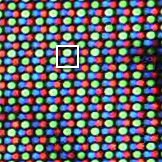 CRT Pixel